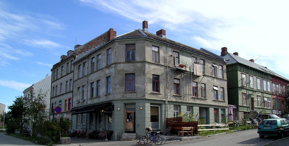 Svartlamoen, Trondheim, Norway.